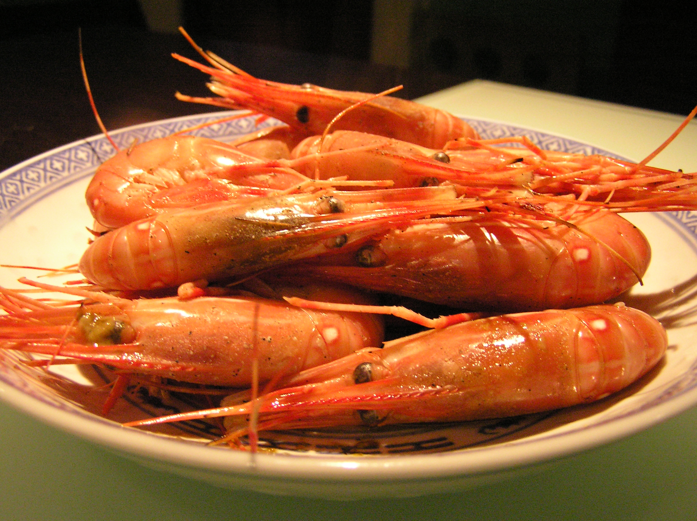 Step 2: the final product of the drunken shrimp. The meat part of the shrimp was tender and cooked just enough, and the heads tasted like vodka. This is half-cooked and is not the typical or common way to serve the drunken shrimp, the common method is eating live shrimps.